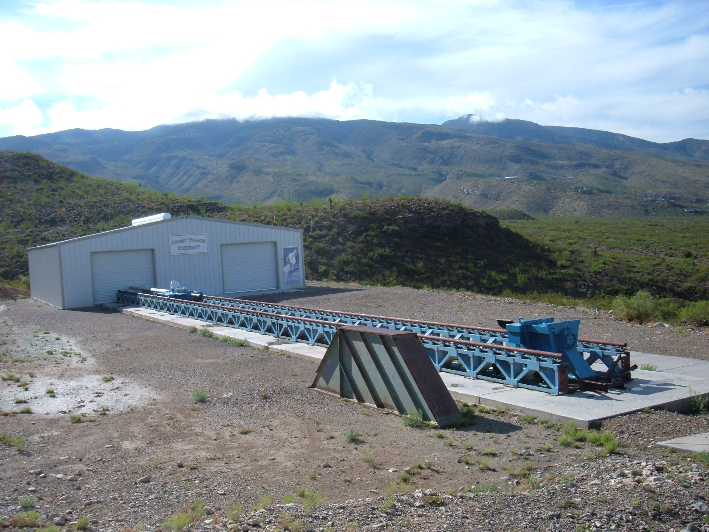 Daisy Track, a test track for an air-powered rocket sled used at Holloman Air Force Base. Now located at the New Mexico Museum of Space History at Alamogordo, New Mexico.